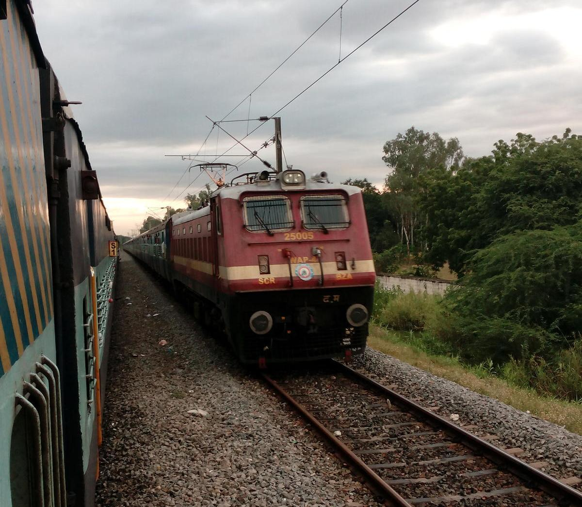 narayanadri xpress